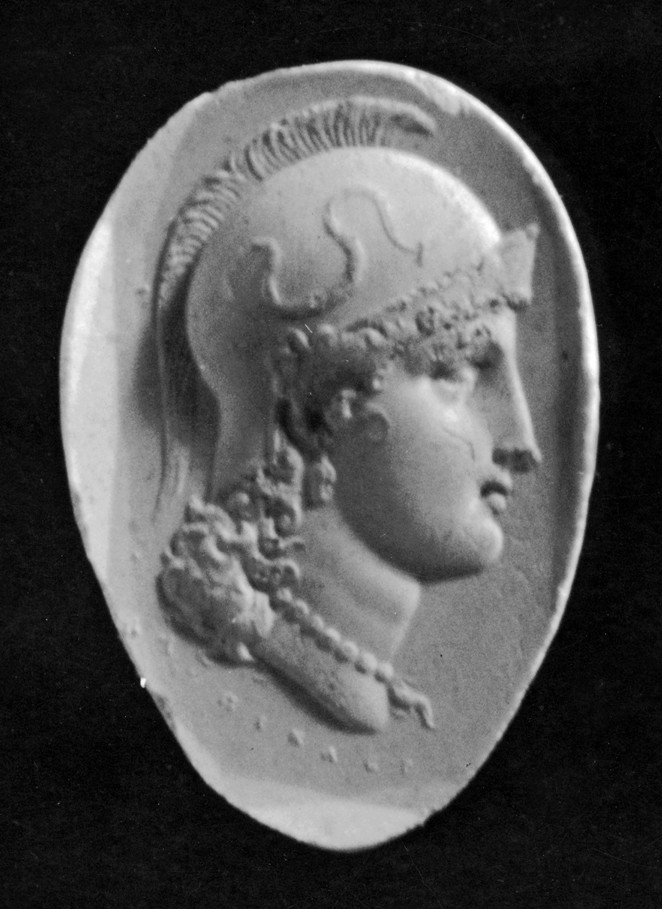 The intaglio showing the goddess of wisdom is inscribed in Greek with the signature of Luigi Pichler, the third son of Johann Anton Pichler (1697-1779), the founder of a dynasty of gem engravers in Rome.